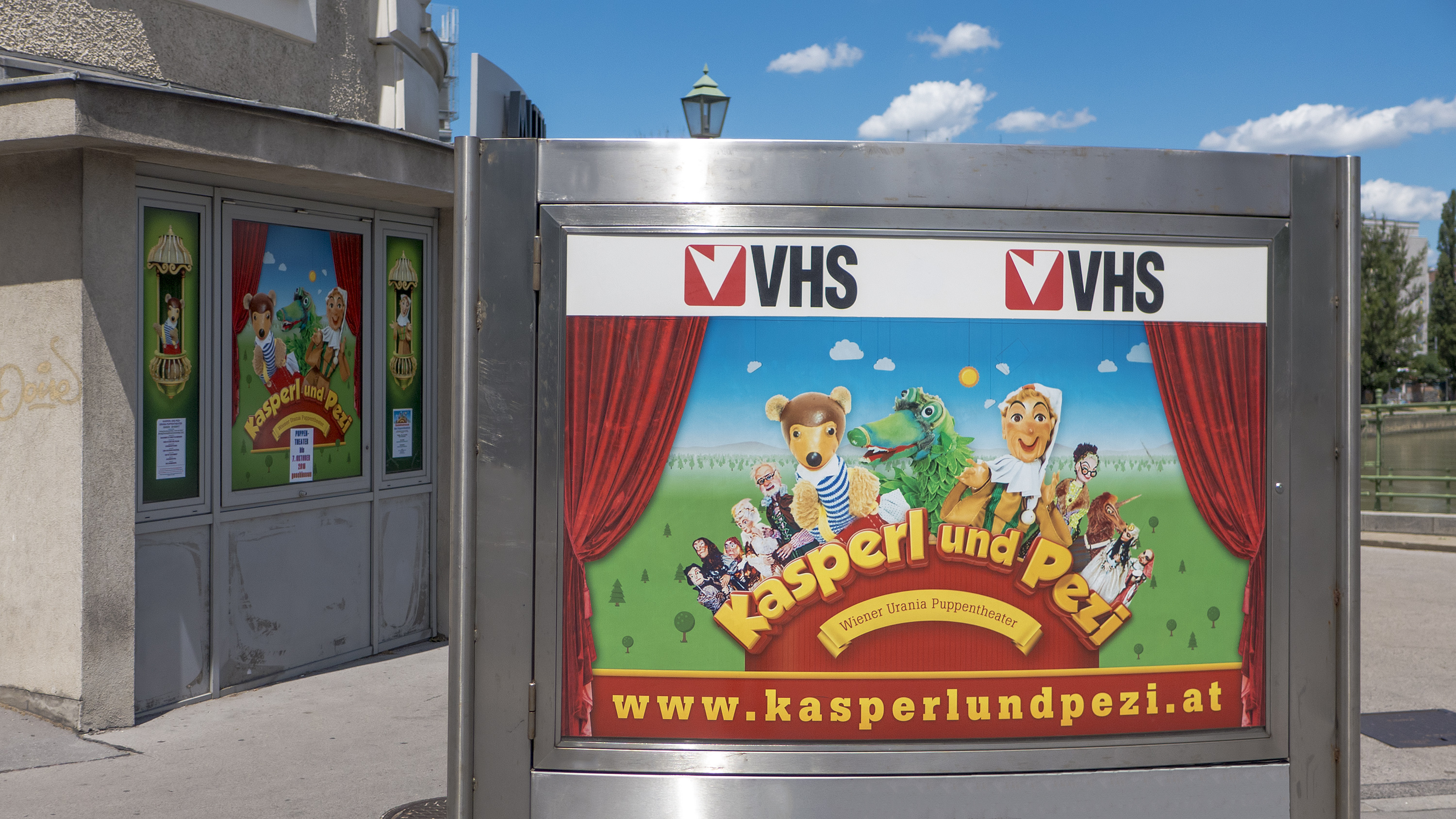 Urania puppet theatre in Vienna 1